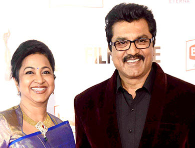 Sarathkumar with Raadhika at 62nd Britannia Filmfare South Awards 2014